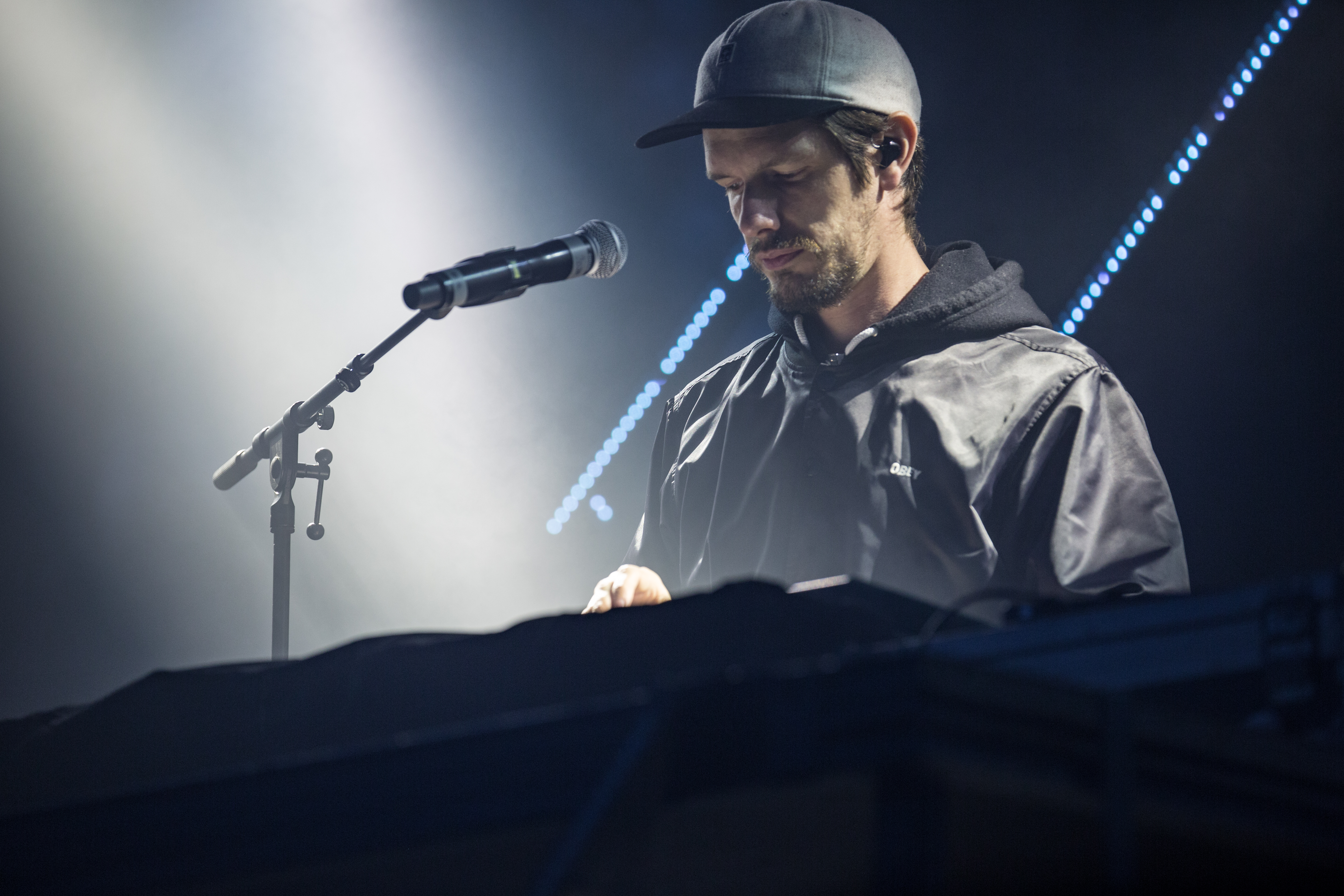 Concert of the duo AllttA (composed of 20syl and Mr. J. Medeiros) during the Natural Games in Millau, France.